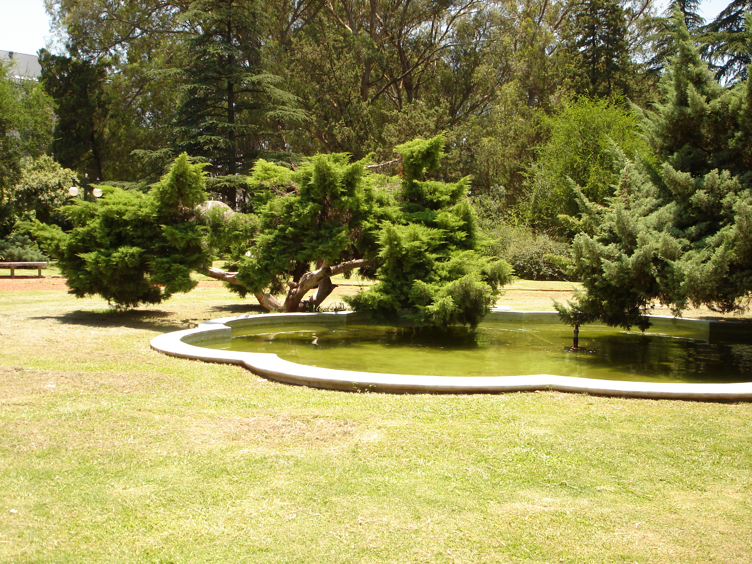 Sarmiento park. Cordoba, Argentina.